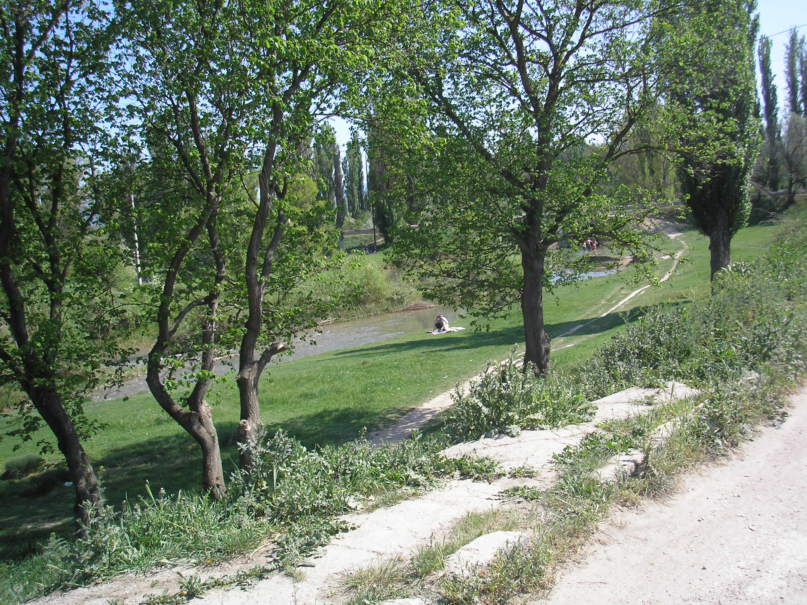 Biyuk-Karasu River in Belogorsk Crimea